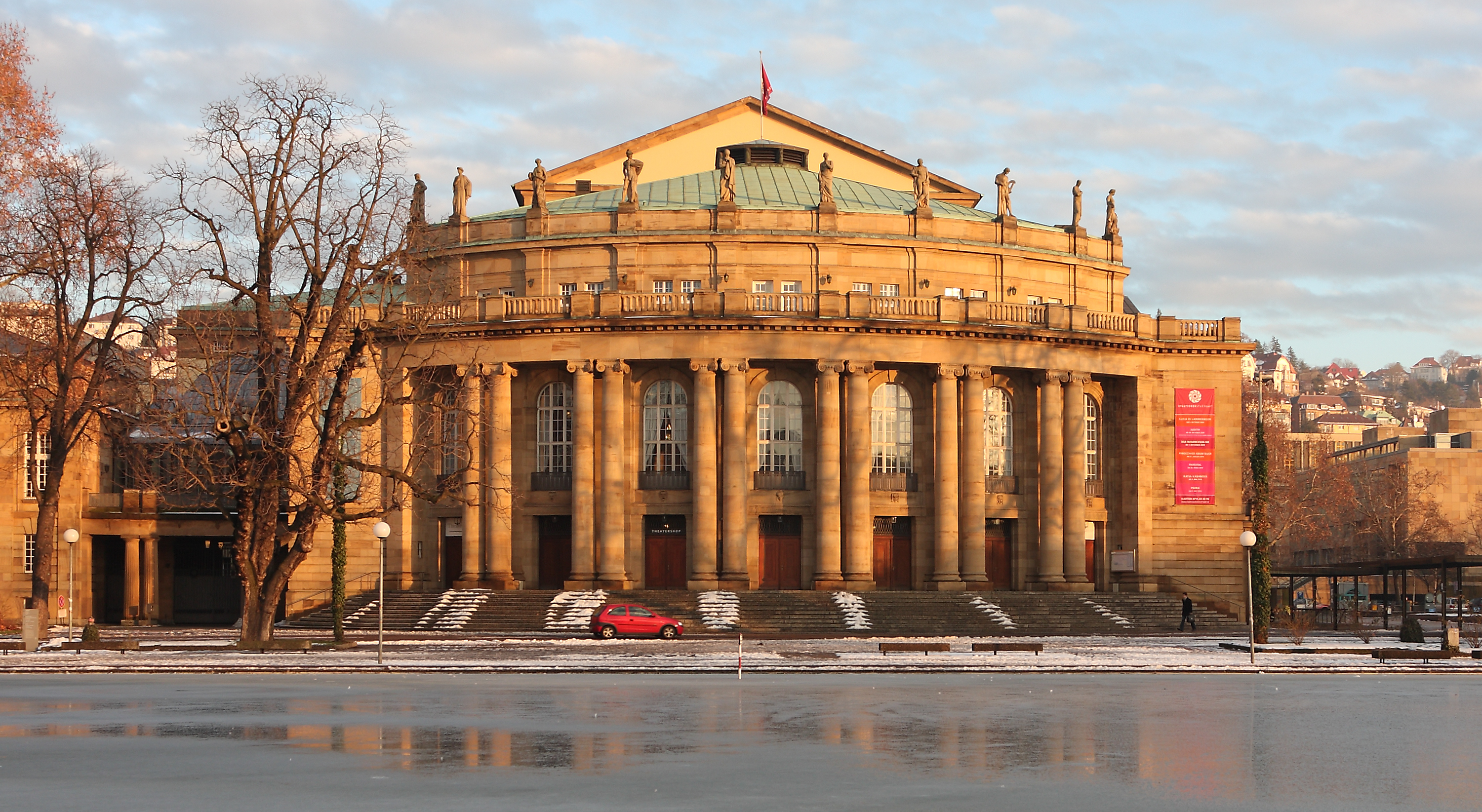 Opera Stuttgart